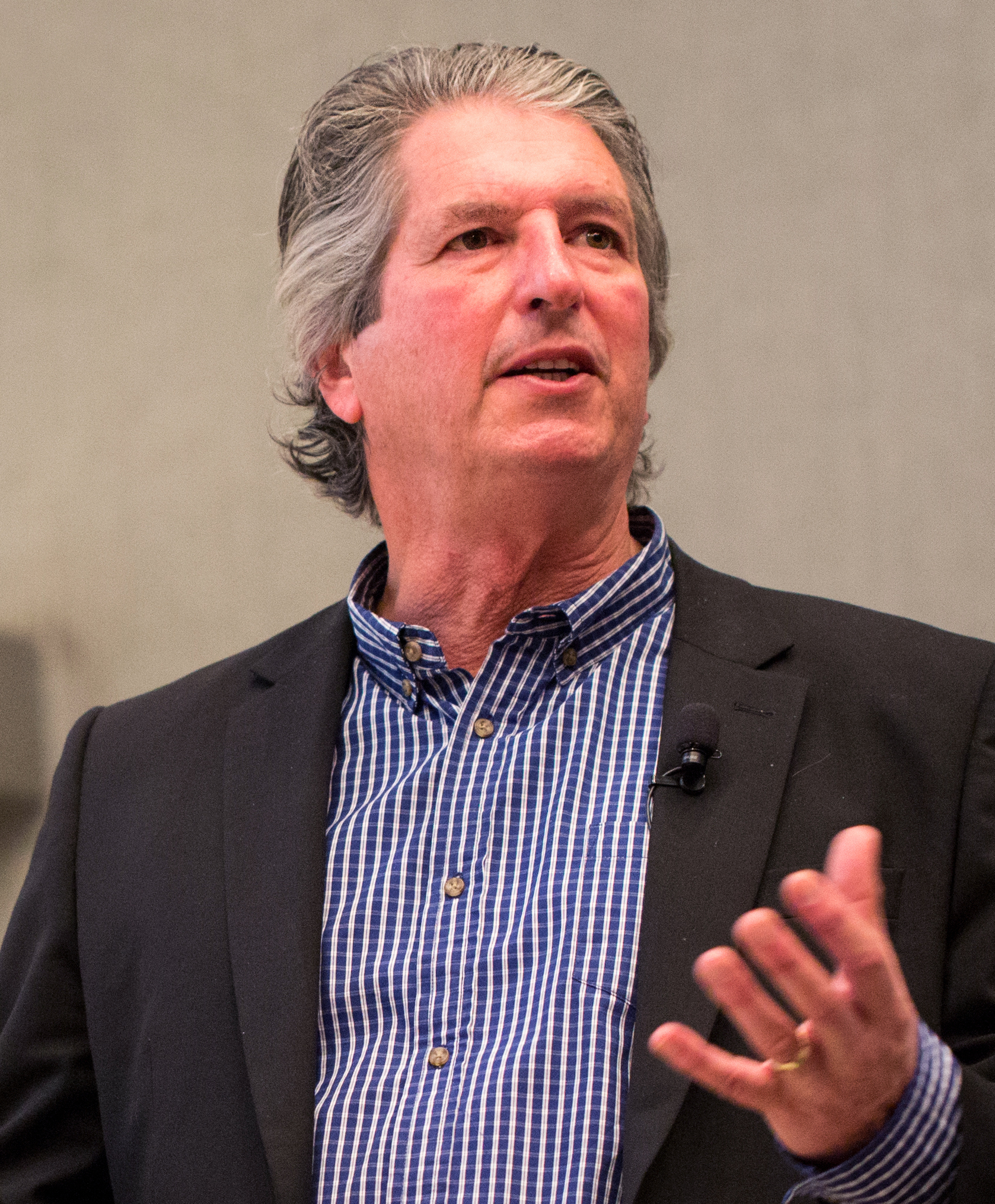 Martin Green, professor at the University of New South Wales, speaking at École Polytechnique (France) on October 12th, 2015 during a conference about the relationship between energy and environment